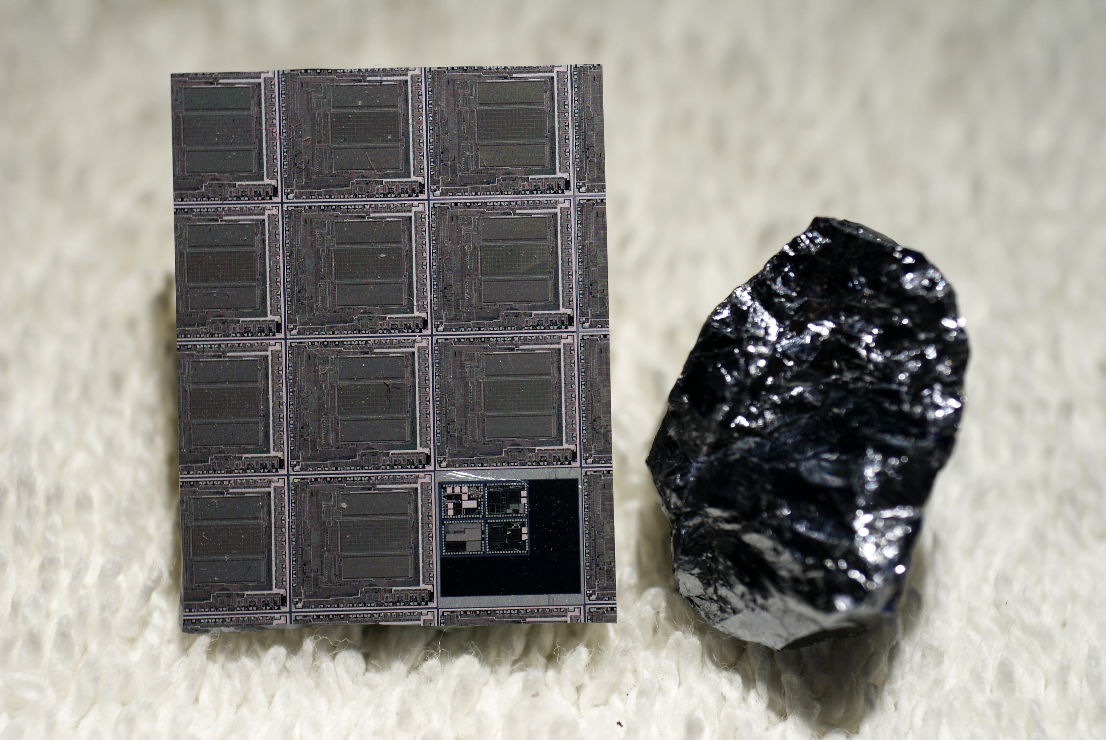 Silicon